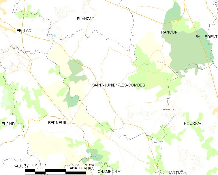 Map of French municipality Saint-Junien-les-Combes